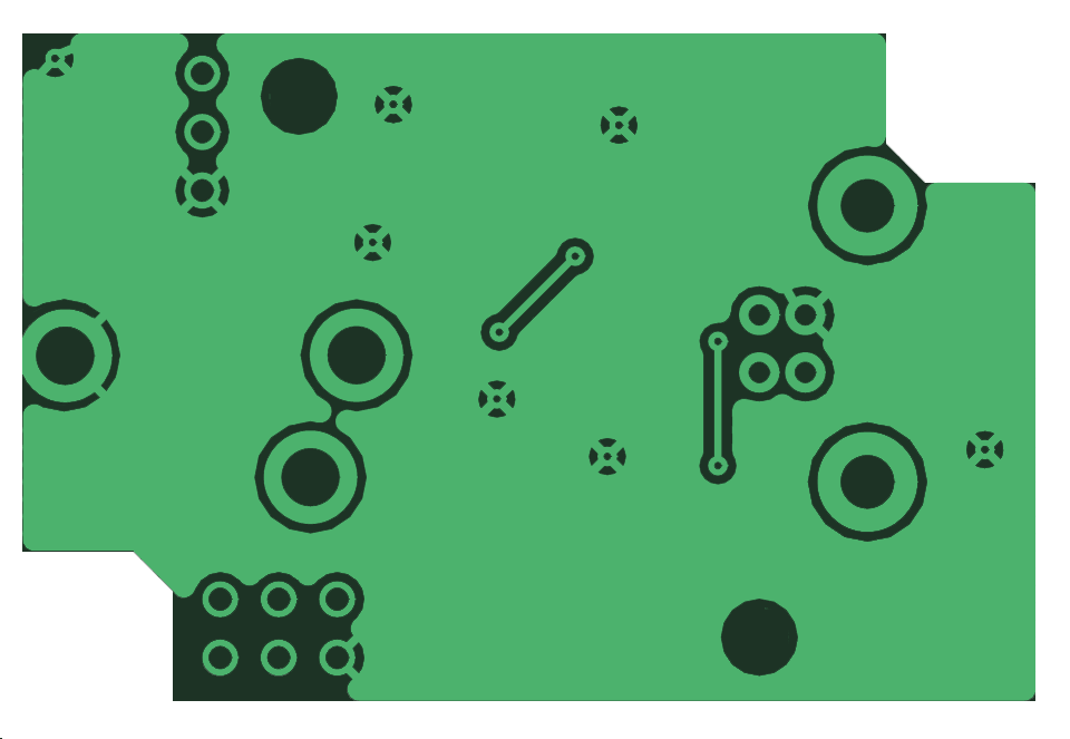 PCB board showing copper pour and thermal pads